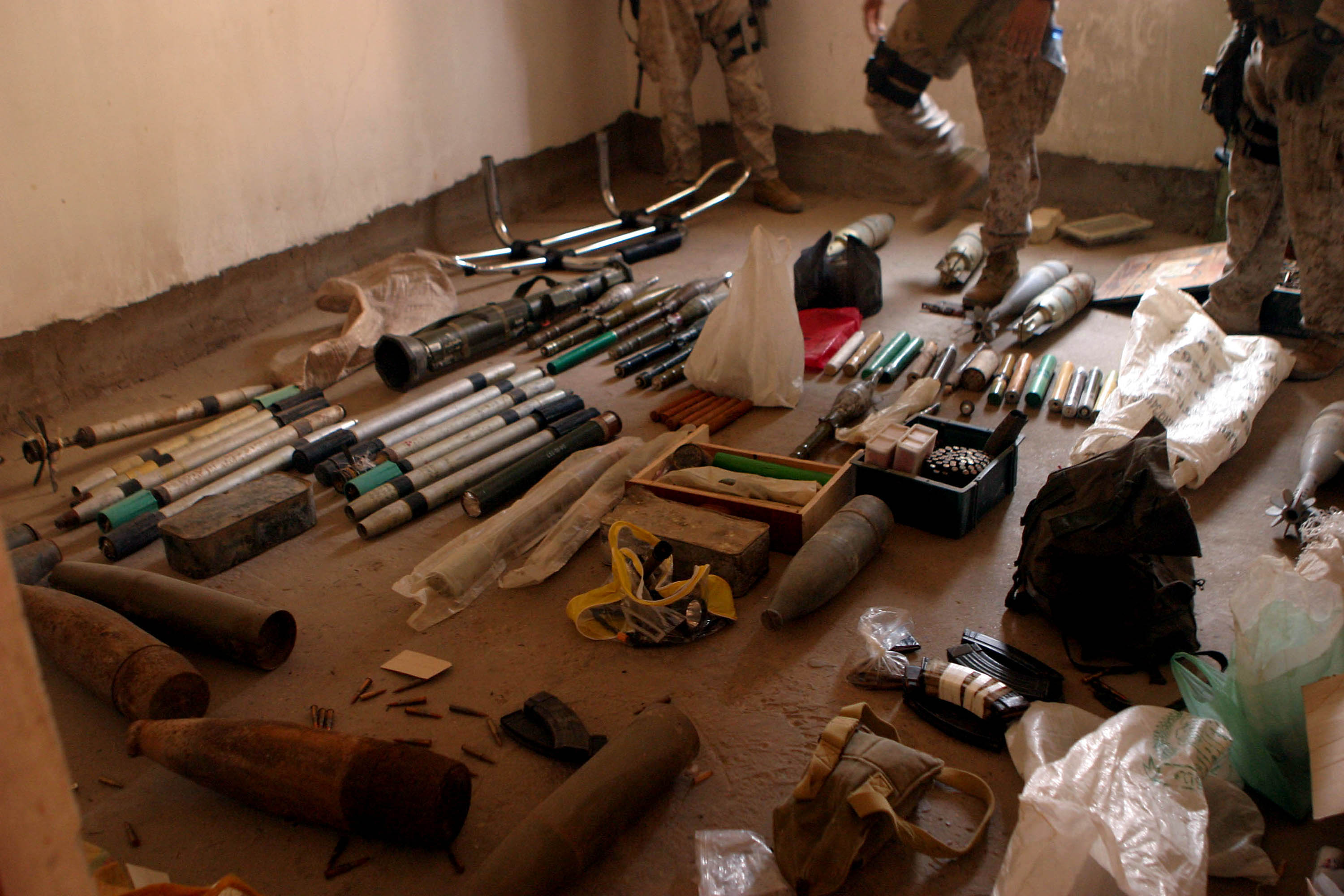 Fallujah, Iraq (Nov. 11, 2004) - Weapons caches found in Fallujah, Iraq, during Operation Al Fajr included explosives, small arms, rockets, medical supplies, electronics, long-range cell phones and propaganda. The cache was found by U.S. Marines assigned to I Company, 3rd Battalion, 5th Marine Regiment, 1st Marine Division. U.S. Marine Corps photo by Lance Cpl. James J. Vooris (RELEASED)